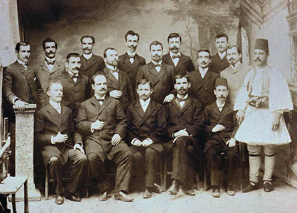 Teachers from the Bulgarian men's high school "Sts. Cyril and Methodius" in Thessaloniki